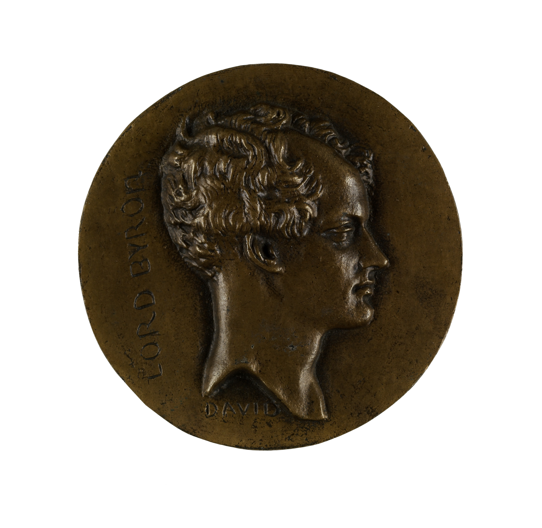 George Gordon Noel Byron,sixth Baron Byron of Rochdate, (1788-1824) was an English poet. He took a seat in the House of Lords in 1809, but left shortly afterward to tour the Mediterranean, where he gathered material for what would be his finest poetry. Upon his return to England his brilliant social success was seriously compromised with rumors of a liaison with his half-sister, Augusta Leigh. Within a year of his marriage in 1815 to the beautiful heiress Annabelle Milbanke, the couple separated, Byron bearing the blame for the unsuccessful union. Ostracized, he left England, never to return, and settled in Italy, where he met Teresa, Countess Guiccioli, who greatly influenced his later work. In 1822, Bryon took up the cause of Greek liberty, but in failing health for some time and stricken with fever, he died in Missolonghi in 1824.